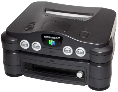 64DD with Nintendo 64.